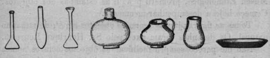 Drawing of several artefacts found in a roman cemetery on Monte Molião (Molião Hill), near the current city of Lagos, in southern Portugal. The artifacts include glass containers that could have been unguentaria, and vases and a plate in clay. This image was published in the work "O Archeologo Português", series I, volume V, of 1900, provided by Direcção Geral do Património Cultural.